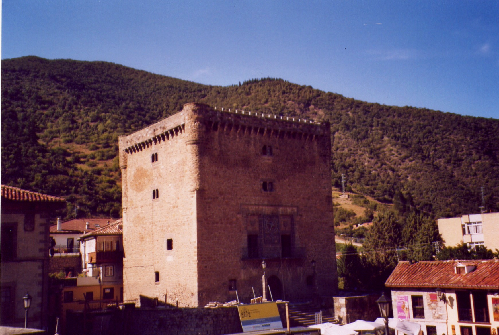 Photo of the "Torre del Infantado", Potes, Cantabria, Spain